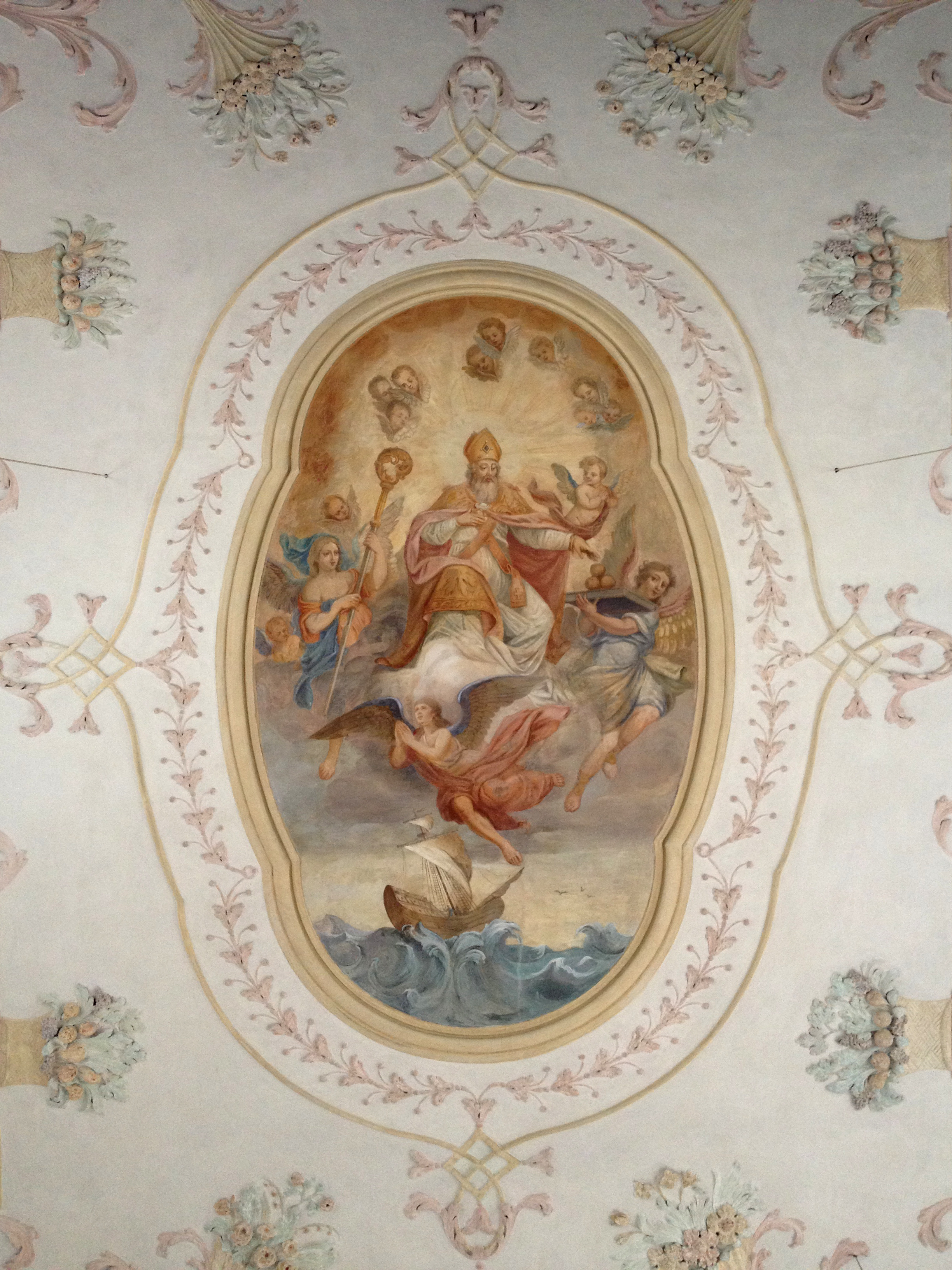 St. Nikolaus in der Glorie (Beschützer der Seefahrt), Deckenfresko in der Pfarrkirche St. Nikolaus Dünzelbach, um 1727